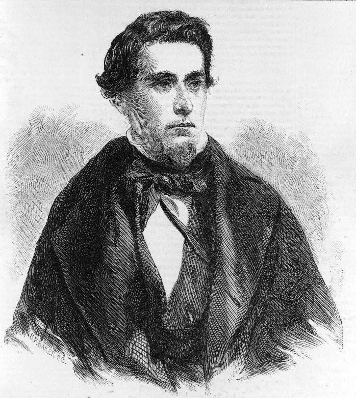 Woodcut from an ambrotype photograph